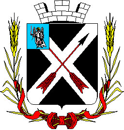 1864 project for the coat of arms of Chyhyryn, Ukraine.